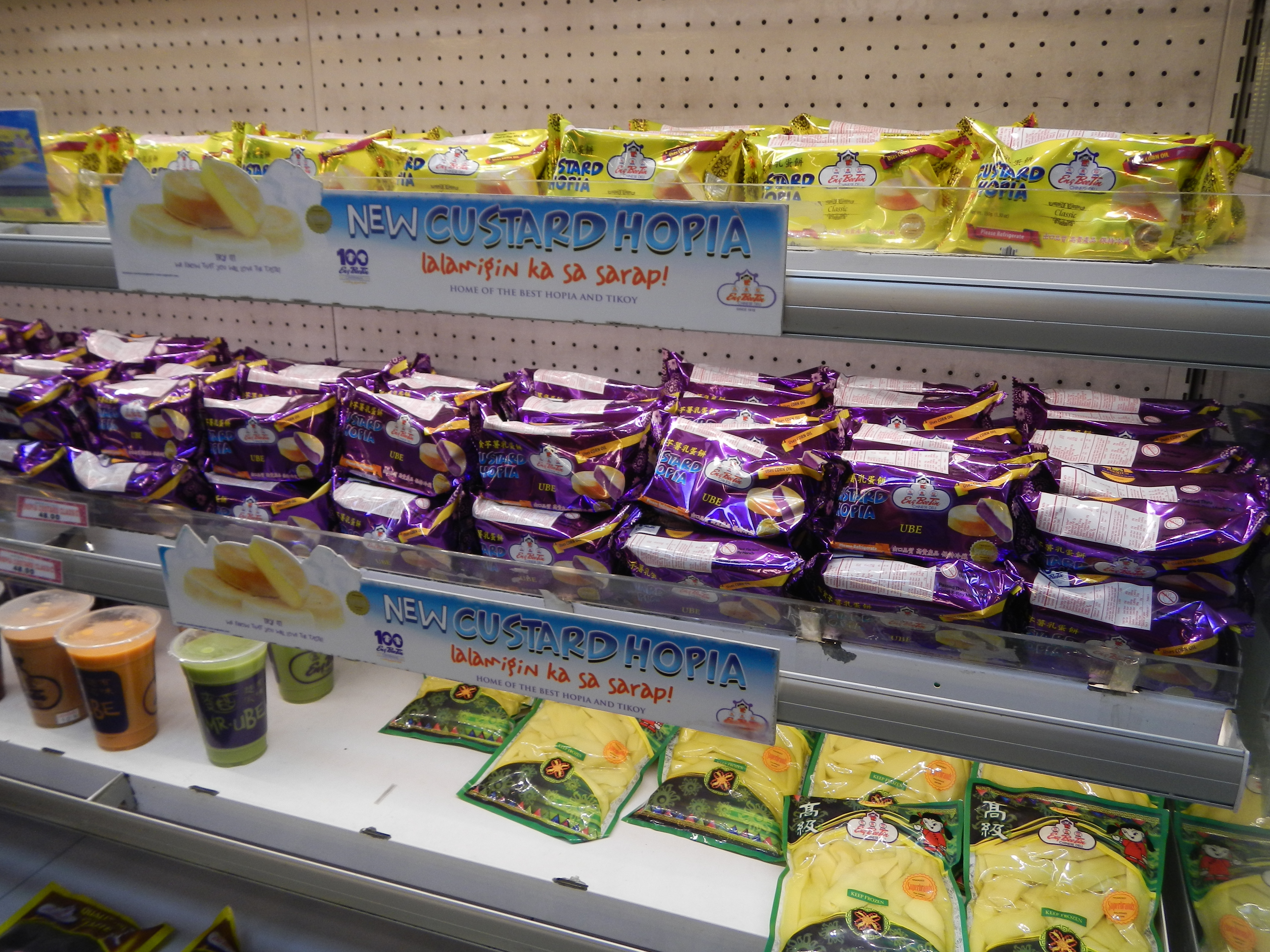 Upload Wizard photos (general description of the landmarks, angle by angle photography of the city, town, rivers, bridges and interesting points) of - Manila Chinatown, Chinese New Year 2014, particulary included is Ongpin Street, Binondo, Manila Chinatown, Masangkay Street, Tomas Mapua Street and Chinatown Proper - Eng Bee Tin Chinese Deli [1] its main product is purple yam or hopia, Bakpia [2] purple-yam hopia is a relatively recent creation from the 1980s by Mr. Gerry Chua of Eng Bee Tin Chinese Deli Oldest Hopia Manufacturer in the Philippines at Binondo, Manila Chinatown, Manila [3] Chinatowns in Asia[4] in preparation for Chinese New Year [5] and Nian gao [6] Chinese New Year's cake, is Tikoy Nian gao is also widely consumed in the Philippines during the Chinese New Year due to the Chinese living in the country known as tikoy (from Hokkien 甜粿) in the Philippines where it is typically dipped in beaten eggs and fried.